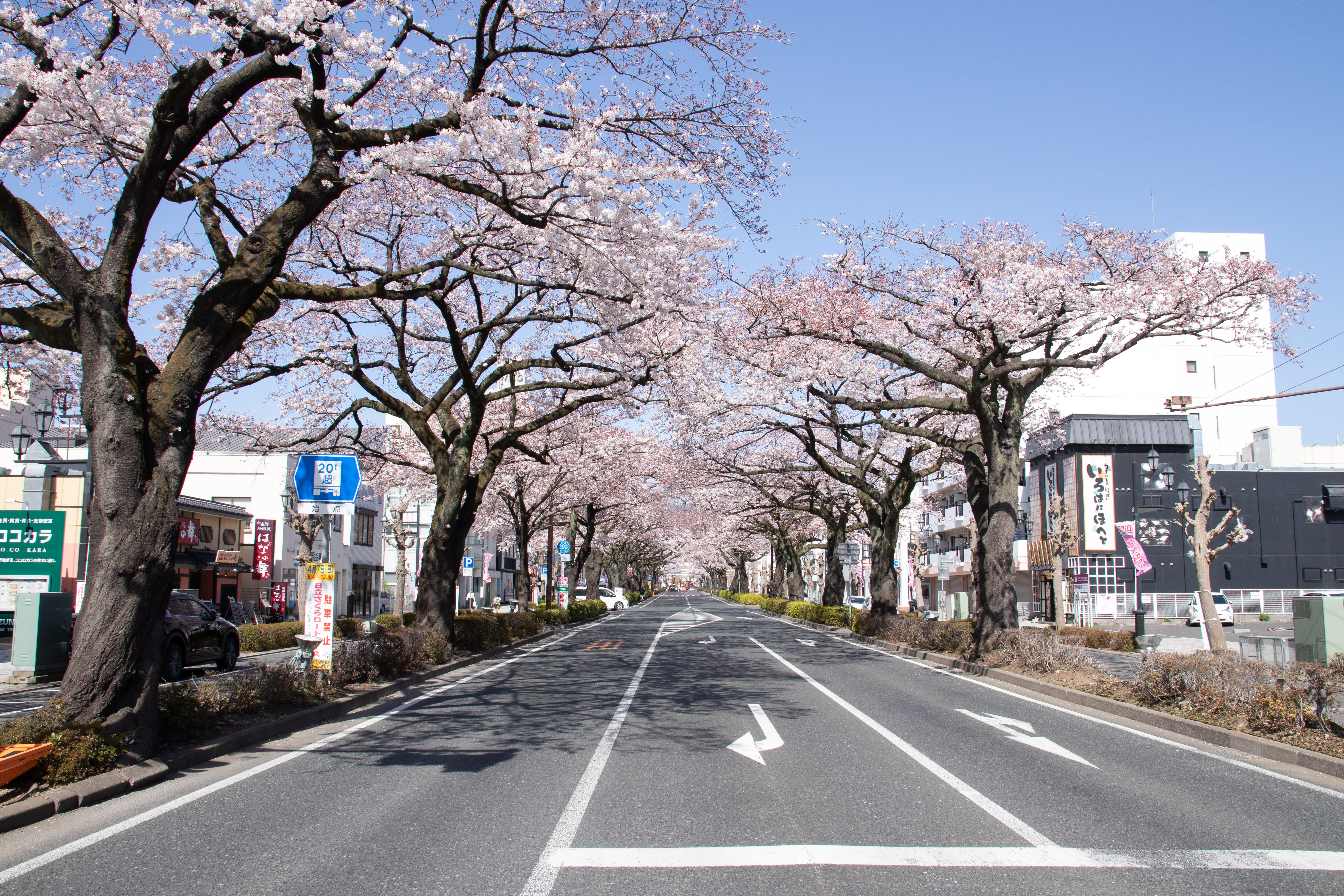 Ibaraki prefectural Road Route-293, Hitachi City, Ibaraki, Japan Canon EOS 80D + Sigma 17-70mm F2.8-4 DC Macro OS HSM